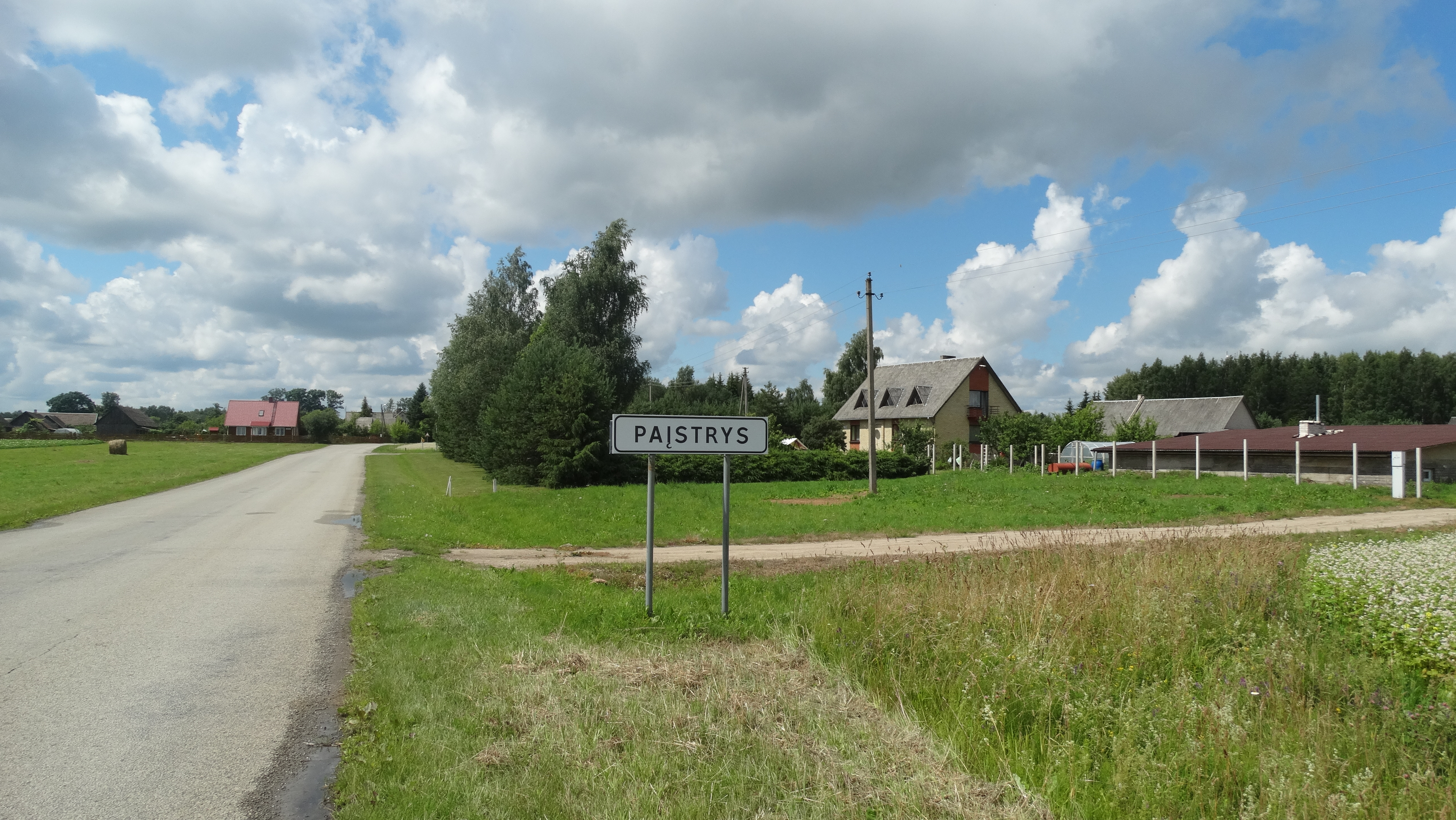 Paįstrys, Panevėžys District, Lithuania